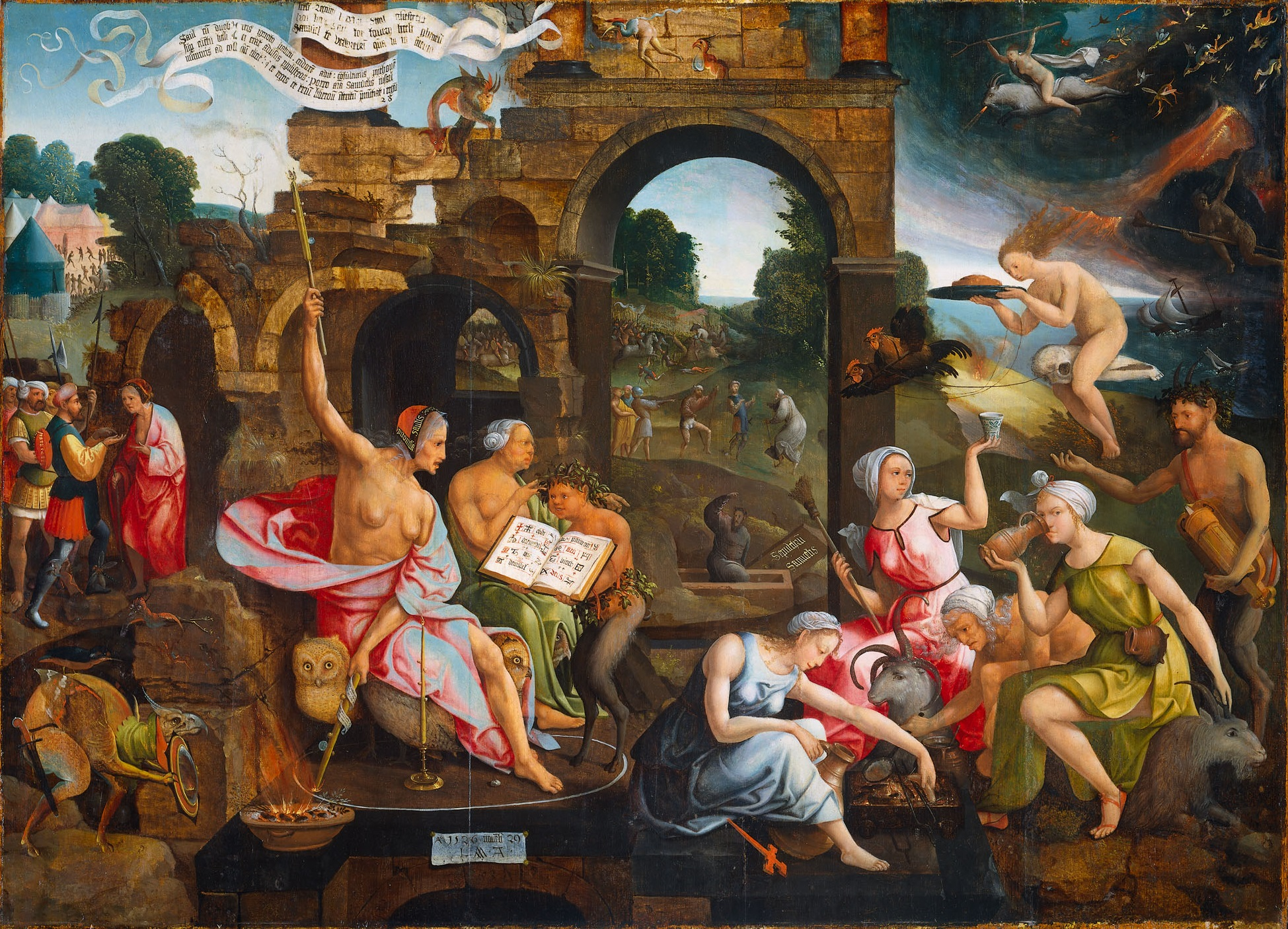 To the left, inside a magic circle, the witch, sitting on a throne of owls, practices her witchcraft. A sater is holding a book with magic spells. To the right four women an two goats are tasting their brewage. To their right a devil with a hurdy-gurdy is standing. Witches and devils are flying through the air. To the left King Saul is standing before the witch's house. In the background the ruins of an arch is depicted through which the Prophet Samuel and Saul's suicide can be seen.